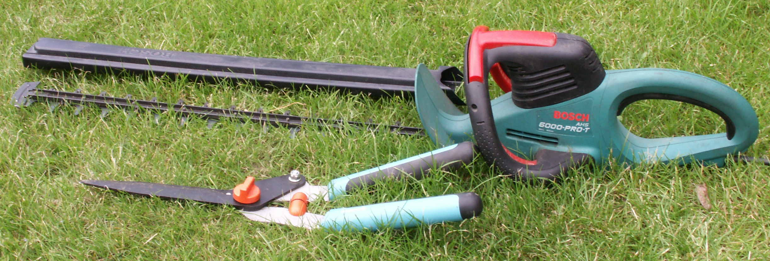 A picture of a electrical and a manual hedge trimmer. Electrical and manual-type trimmers are very environmental and allow easy trimming. Also, a tractor-driven version of trimmers exist aswell (not shown), which allows easy trimming/pruning of plants and food crops. More specifically, they are used in grape-growing (for making wine), by using small tractors which drive between the grape vines.